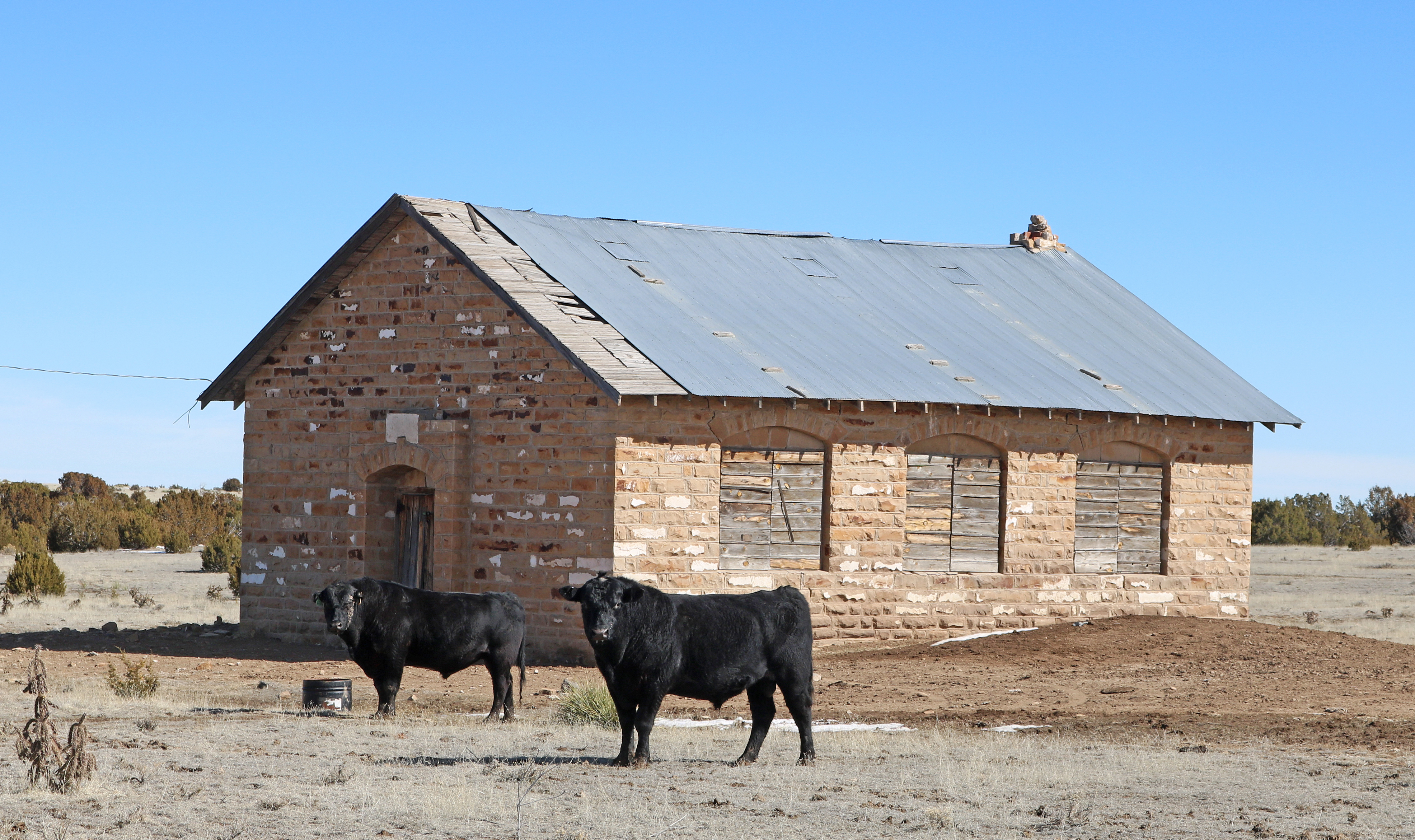 The 7-D school, located along County Road 171 in Las Animas County, Colorado. The property is included on the National Register of Historic Places.